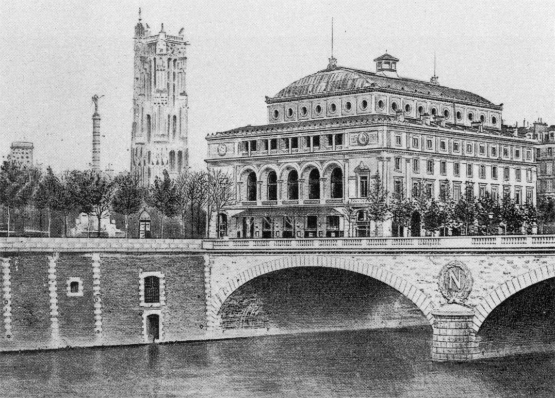 The Théâtre Lyrique on the Place du Châtelet in 1862. The theatre was destroyed by fire in 1871 and rebuilt in very much the same style.